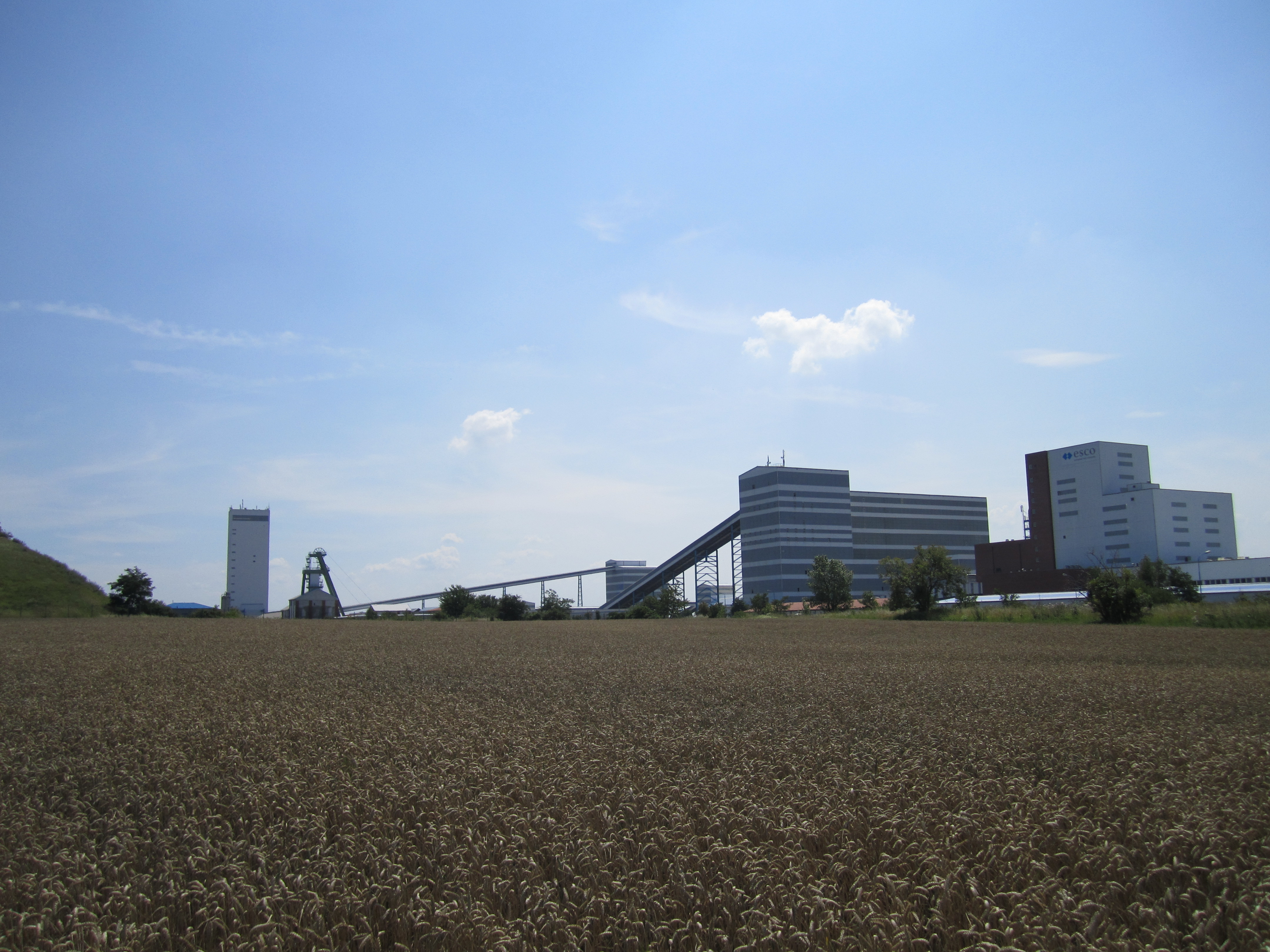 Winding towers of the Bernburg salt mine in Bernburg, Saxony-Anhalt, Germany.